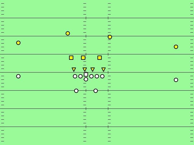 Miami 4-3, Shade front, based on video of 1992 Cowboys and 1992 Cowboys Playbook. This is an amended version of my previous diagram, which had a flawed offensive set.